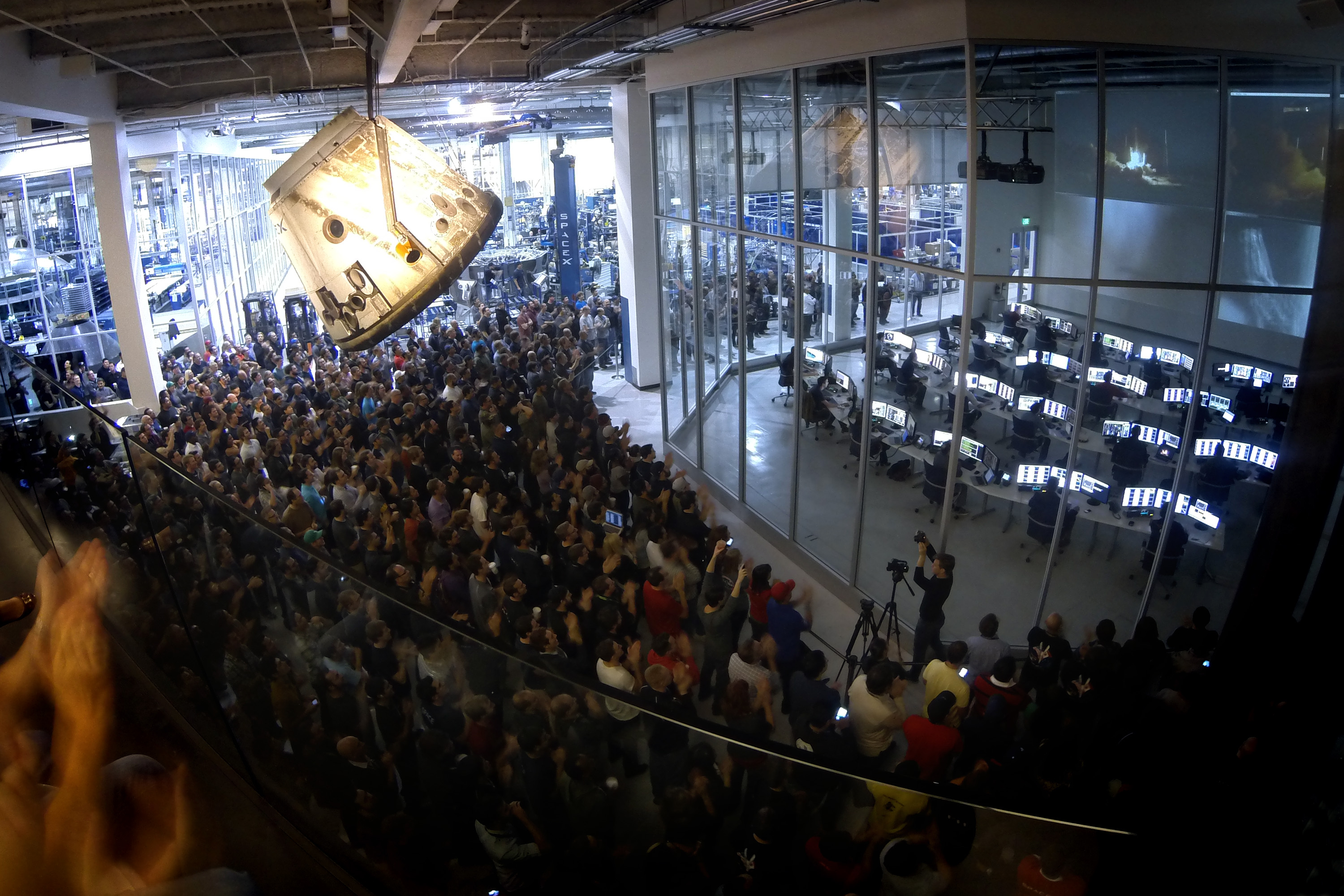 SpaceX employees watch the Falcon 9 SES-8 launch from SpaceX headquarters in Hawthorne, CA